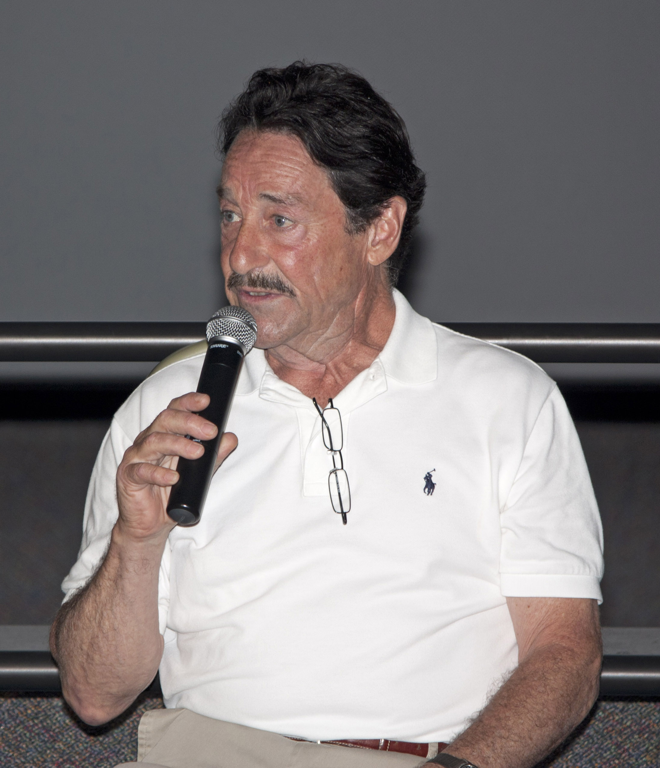 Voice actor Peter Cullen speaks at the Kennedy Space Center in 2011.